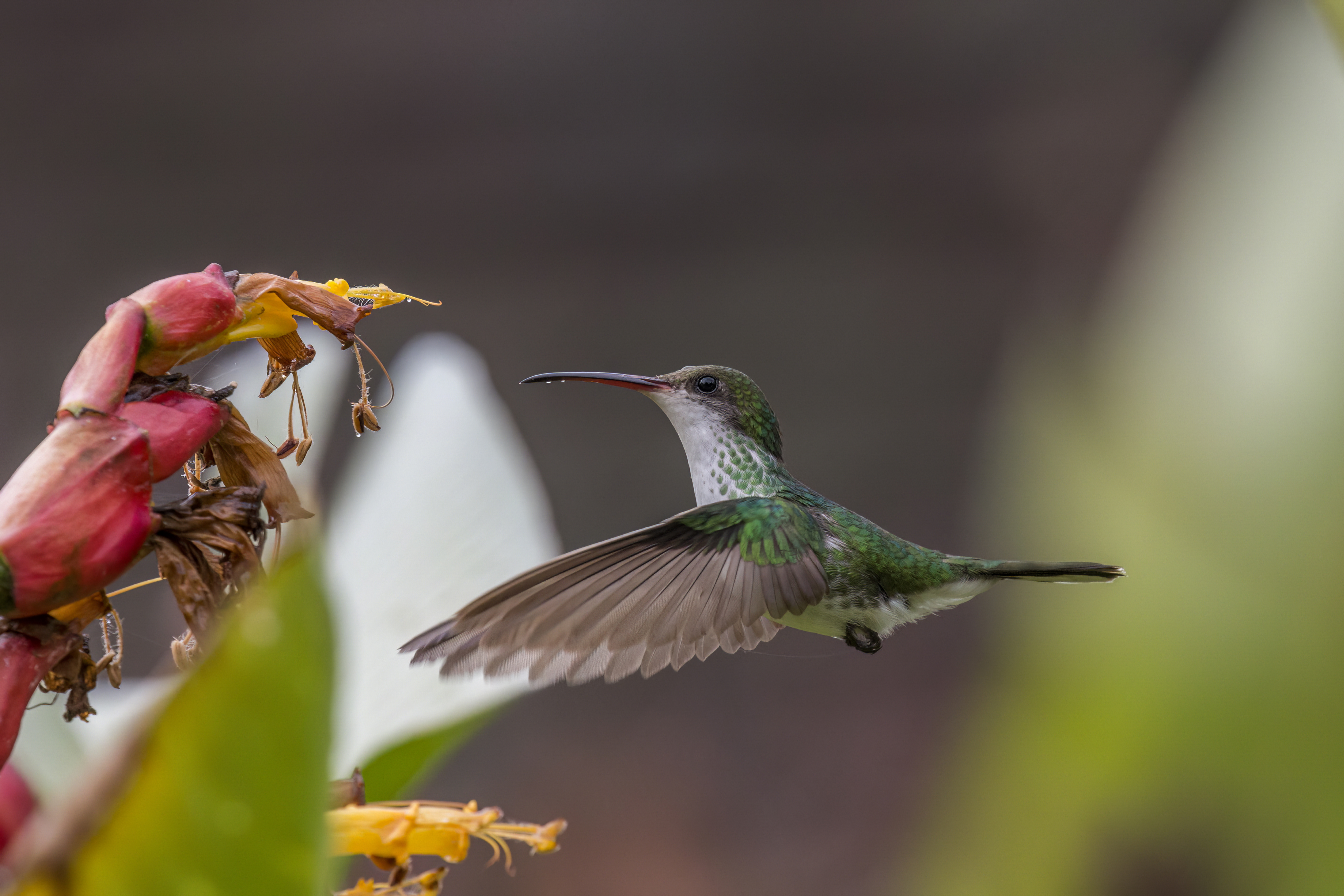 Red-billed streamertail (Trochilus polytmus) female in flight, Strawberry Hill, Jamaica.